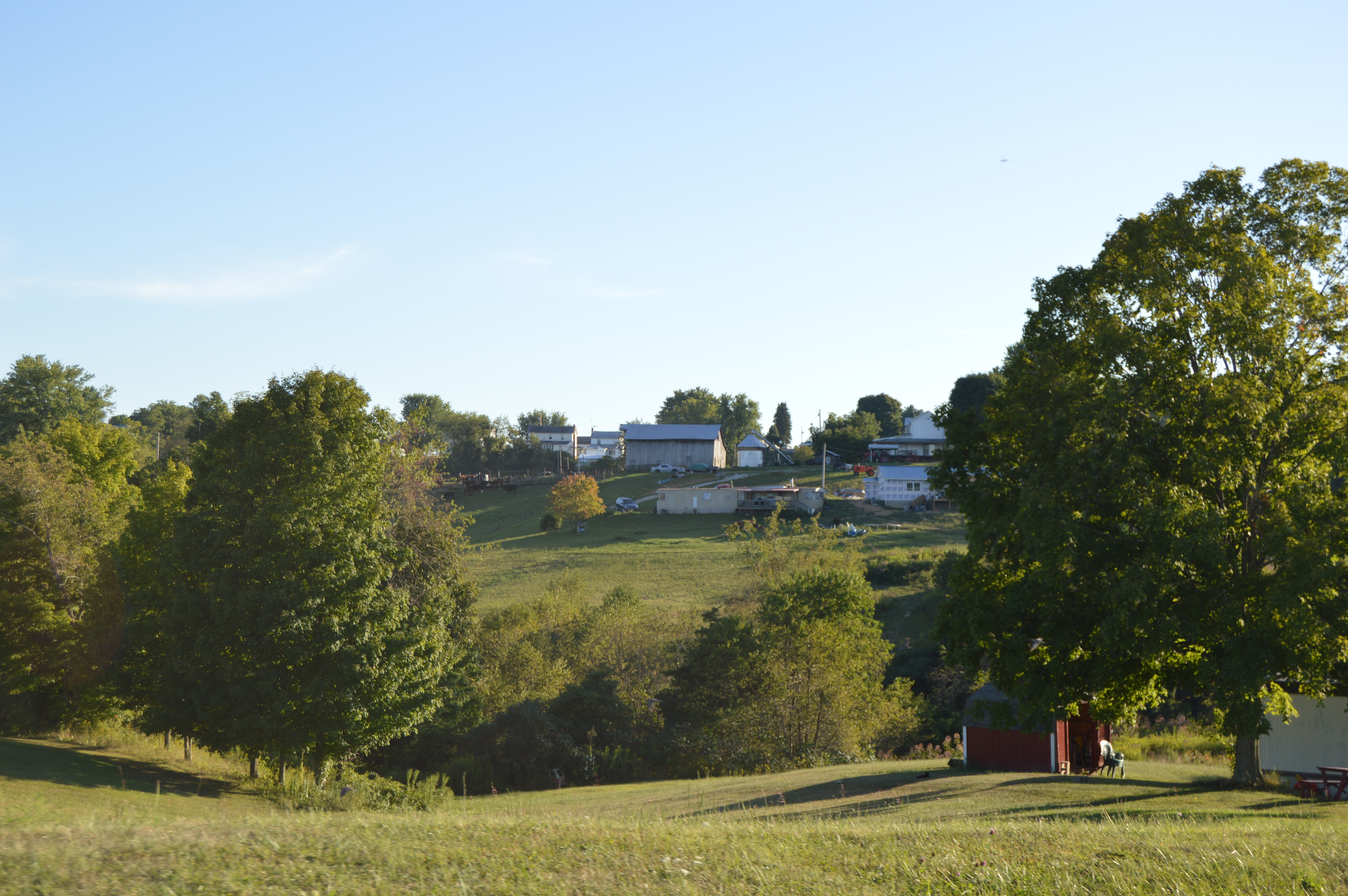 Overview of Antioch, Ohio, United States, seen from a hill on Union Road to the north.